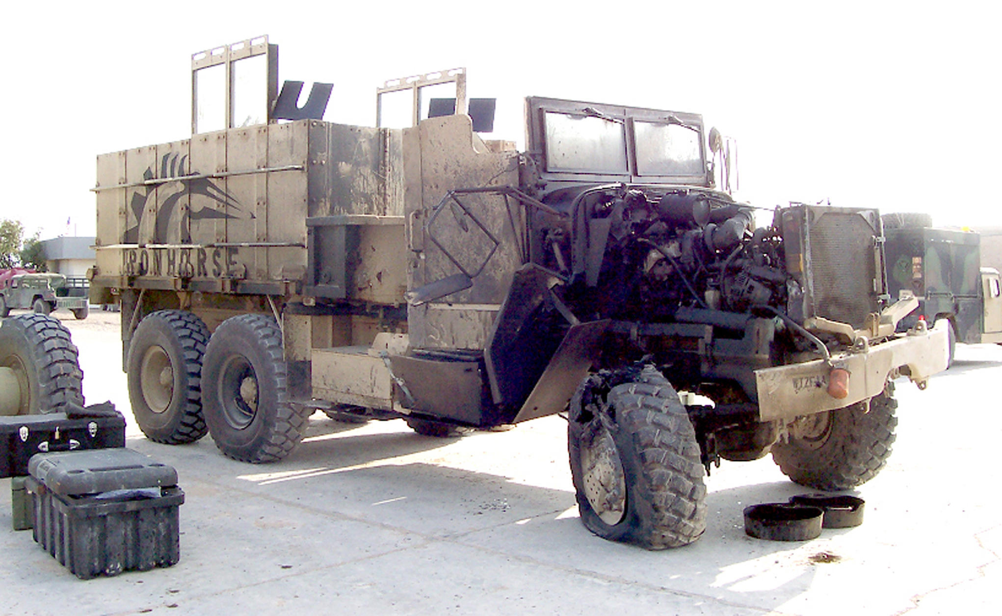 A gun truck, with an armor kit developed by Lawrence Livermore National Laboratory researchers and engineers, was struck by an improvised explosive device on March 23, 2005, southwest of Fallujah, Iraq. All seven U.S. soldiers in the vehicle at the time of the attack walked away unharmed.